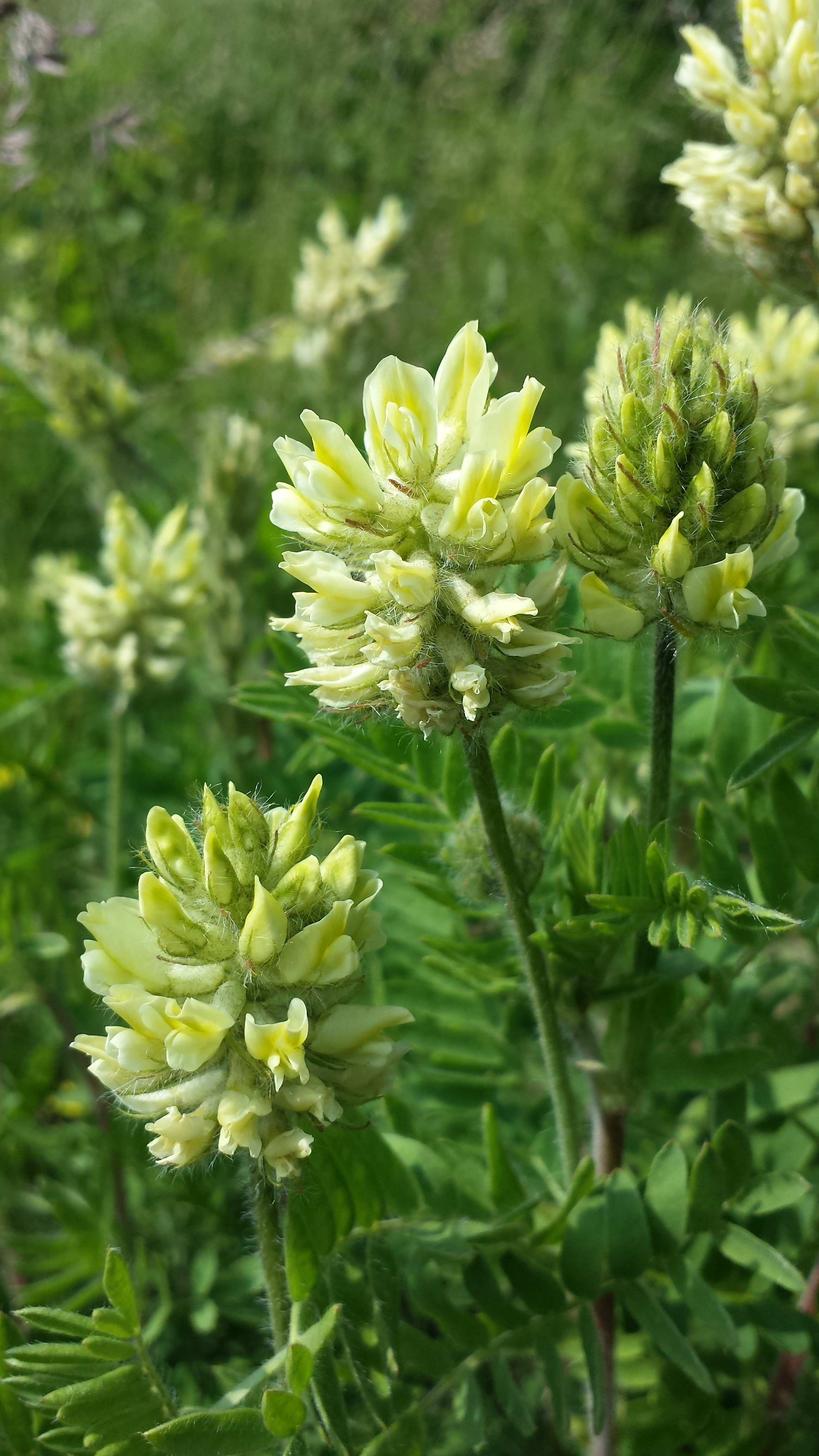 Taxon: Oxytropis pilosa Location: Zeiserlberg near Ottenthal, district Mistelbach, Lower Austria Habitat: dry grassland Identified according to: Fischer et al. EfÖLS 2008